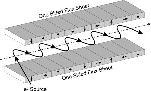 This diagram shows the orientation of magnets in a Halbach Array. This synchrotron component is designed to produced bright electromagnetic radiation by "wiggling" the path of an electron or proton beam in a particle accelerator.